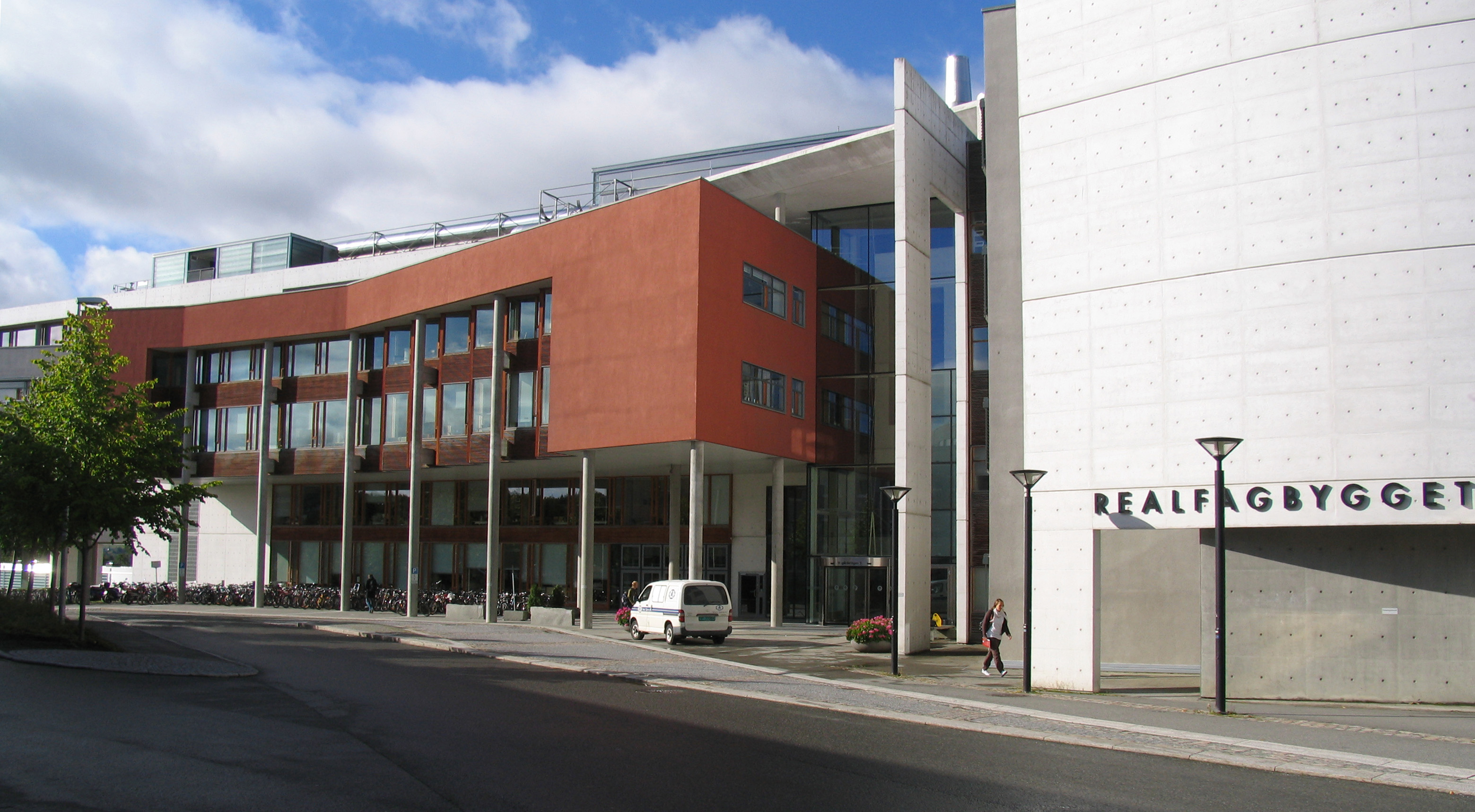 The maine Entrance of the "Realfagbygget" on the Gløshaugen campus of NTNU. The building hosts institutes and faculties of natural science.